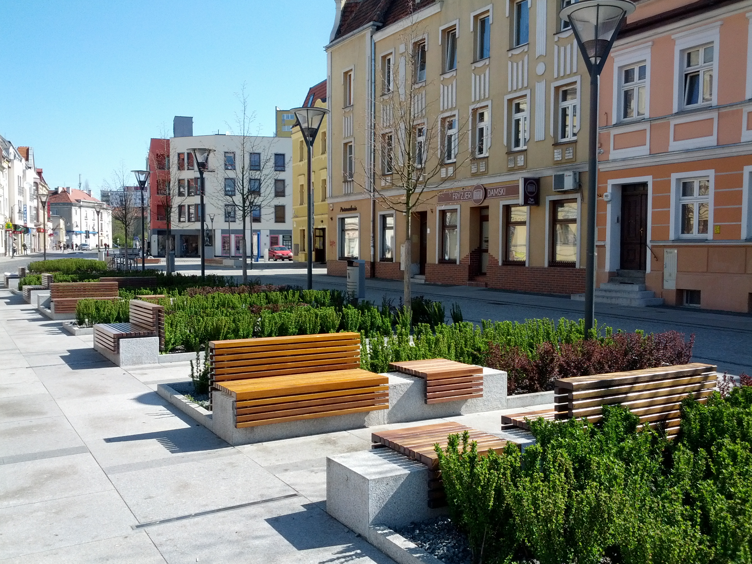 Wroclaw Psie Pole Old Market